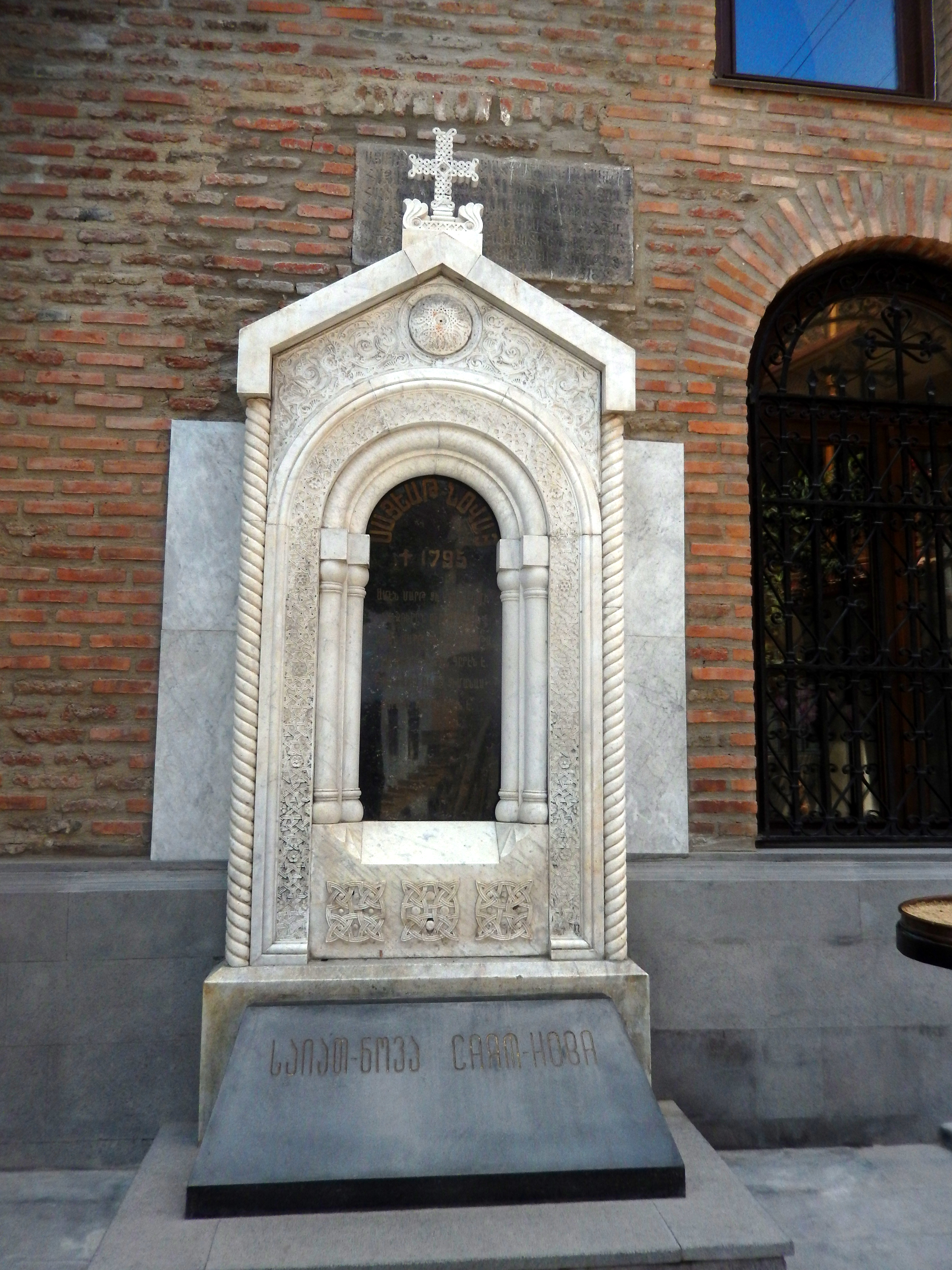 Saint Gevorg Armenian Church, Old Tbilisi